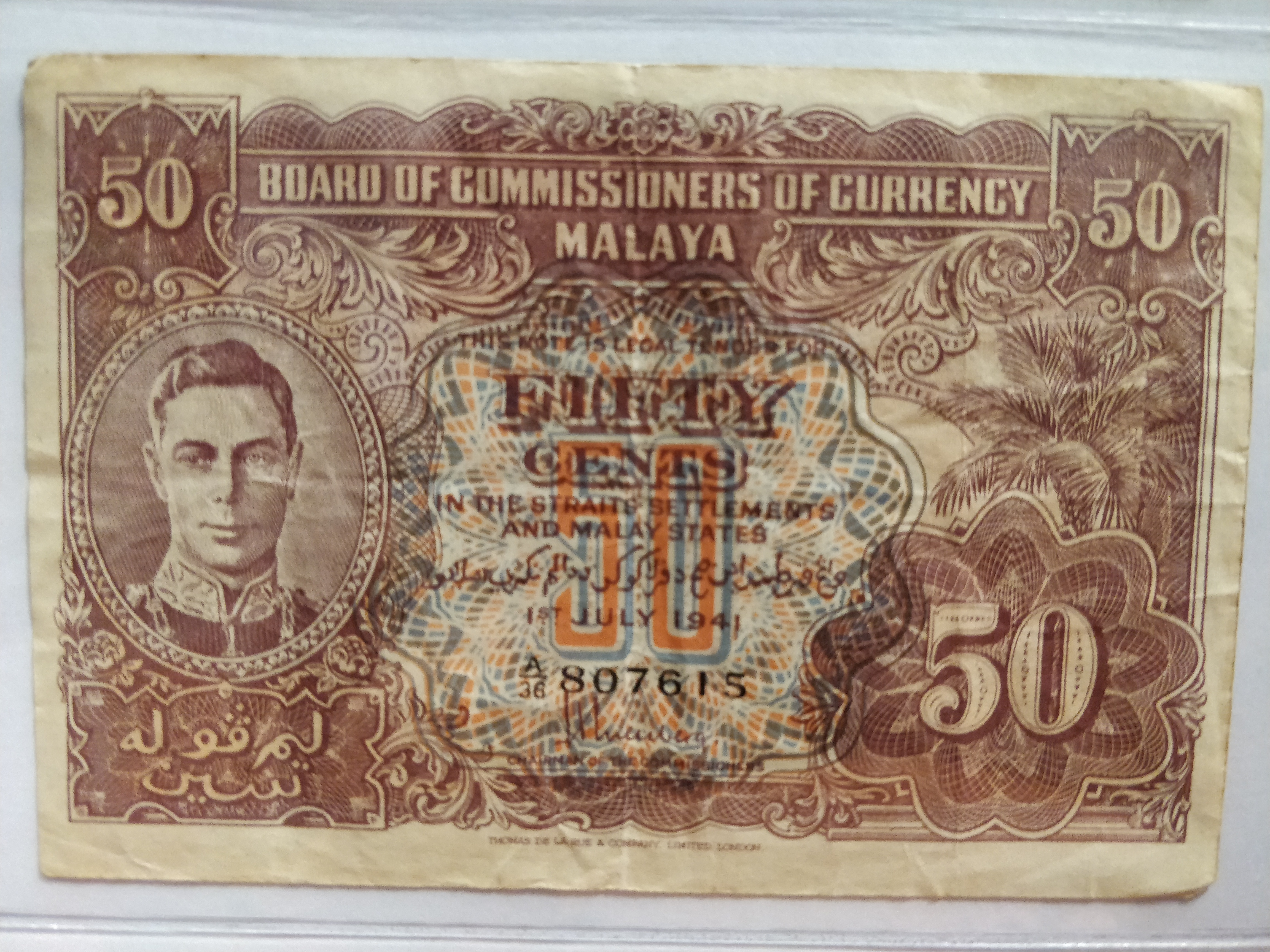 Malayan Dollar Note, 50 cent, Obverse 1st July 1941